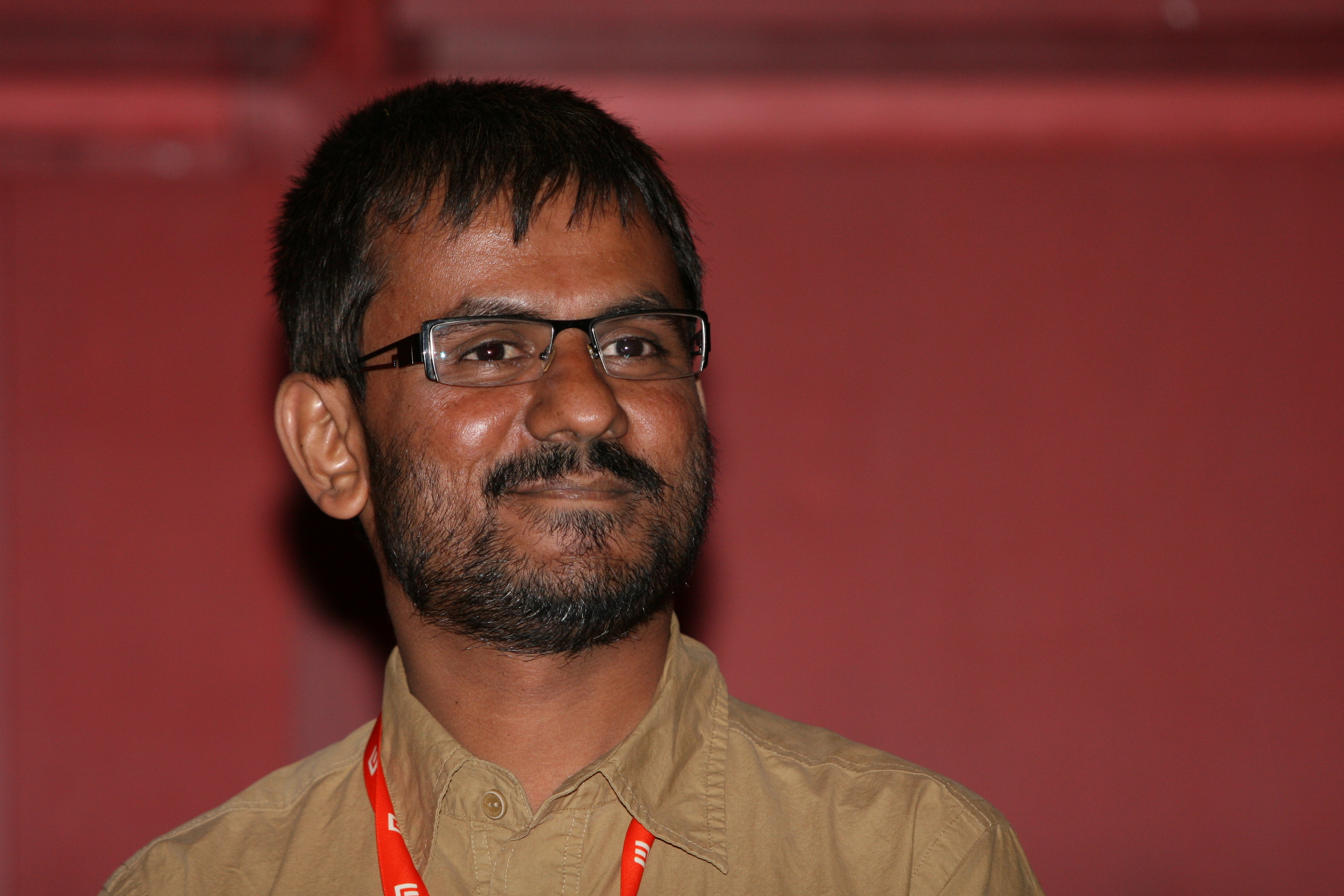 Indian film actor, writer, and producer Girish Pandurang Kulkarni at 2008 Karlovy Vary International Film Festival